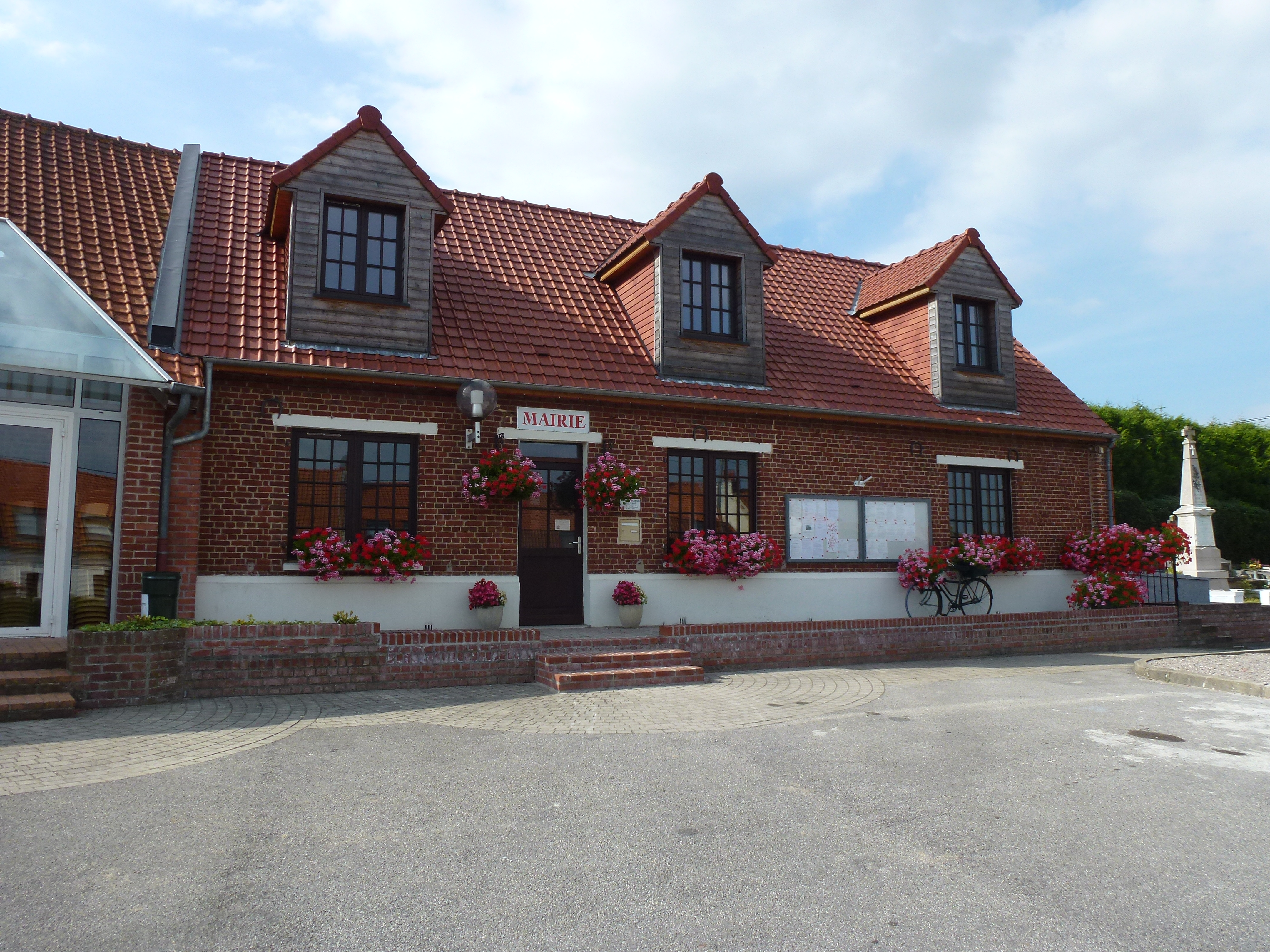 Zouafques (Pas-de-Calais, Fr) mairie